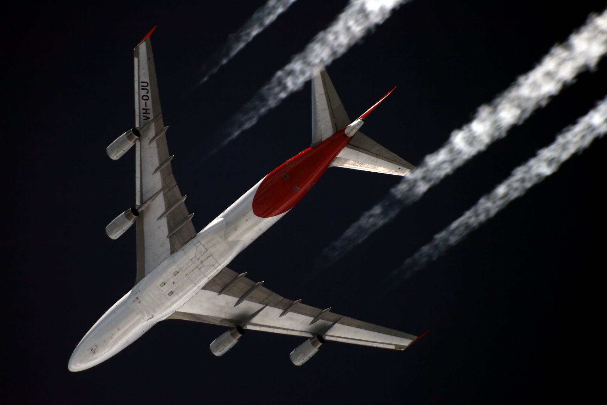 A Qantas Boeing 747-400 flying at approximately 11,000 metres in revised color scheme viewed from the ground at Starbeyevo in Moscow. Almost no difference except for lack of a golden stripe between red and white colors. The white clouds are contrails, condensed water vapour made by the exhaust of aircraft engines. f. 400D + 1200mm telescope + 2x Barlow lens.